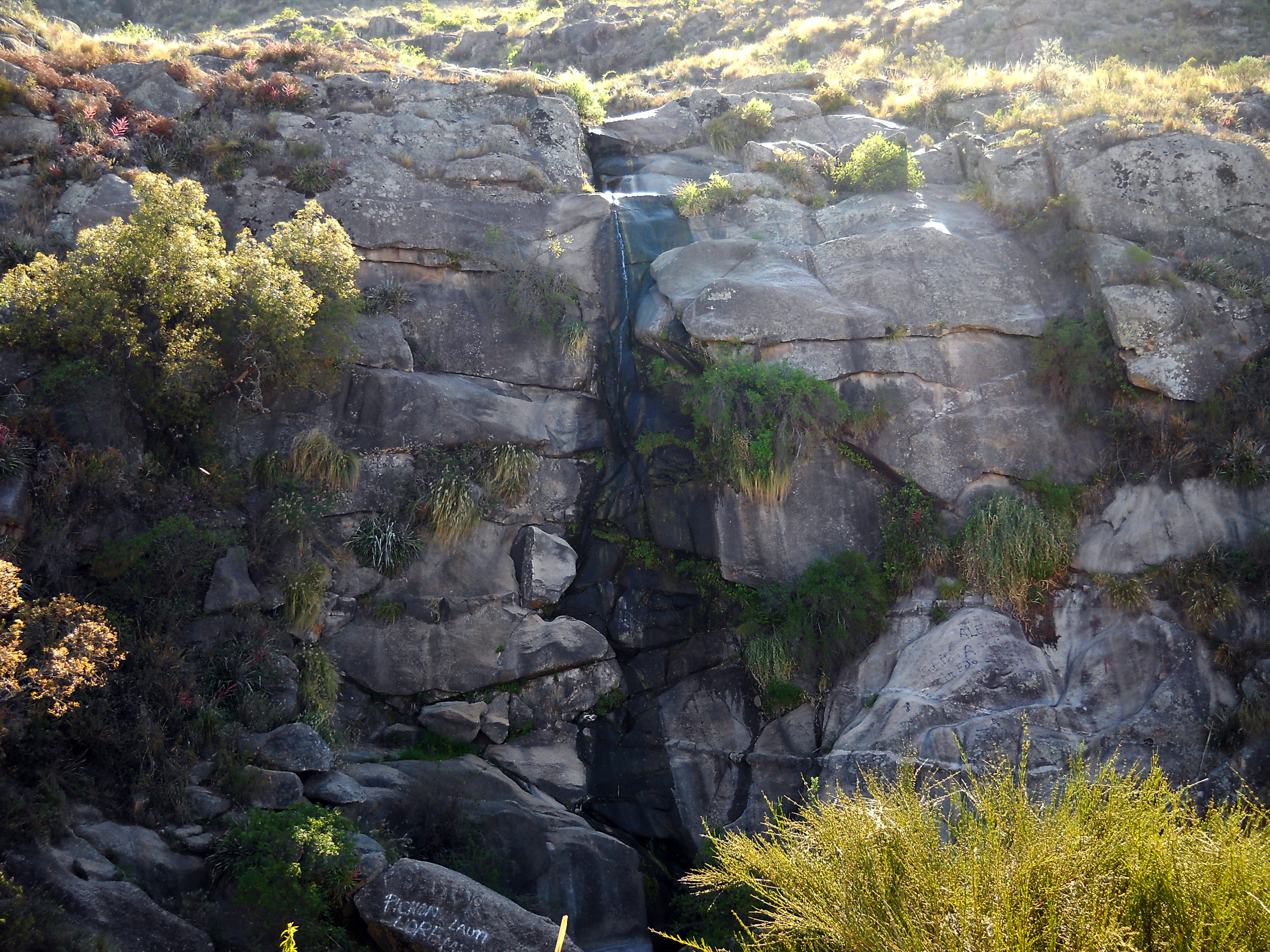 One of the hundreds of strands (or gushers) provide pure and crystalline water.